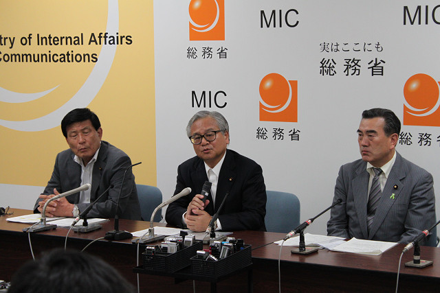 Kimiaki Matsuzaki, Tōru Kikawada, Senior Vice-Ministers for Internal Affairs and Communications, and Ryō Shuhama, Parliamentary Secretary for Internal Affairs and Communications, attended the press conference at the Central Government Building No.2 in Chiyoda Ward, Tōkyō Metropolis on September, 2011.(For terms of use, see 総務省｜当省ホームページについて.)